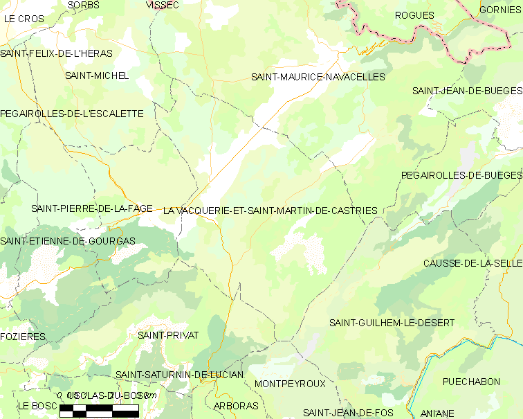 Map commune FR insee code 34317.png - La Vacquerie-et-Saint-Martin-de-Castries